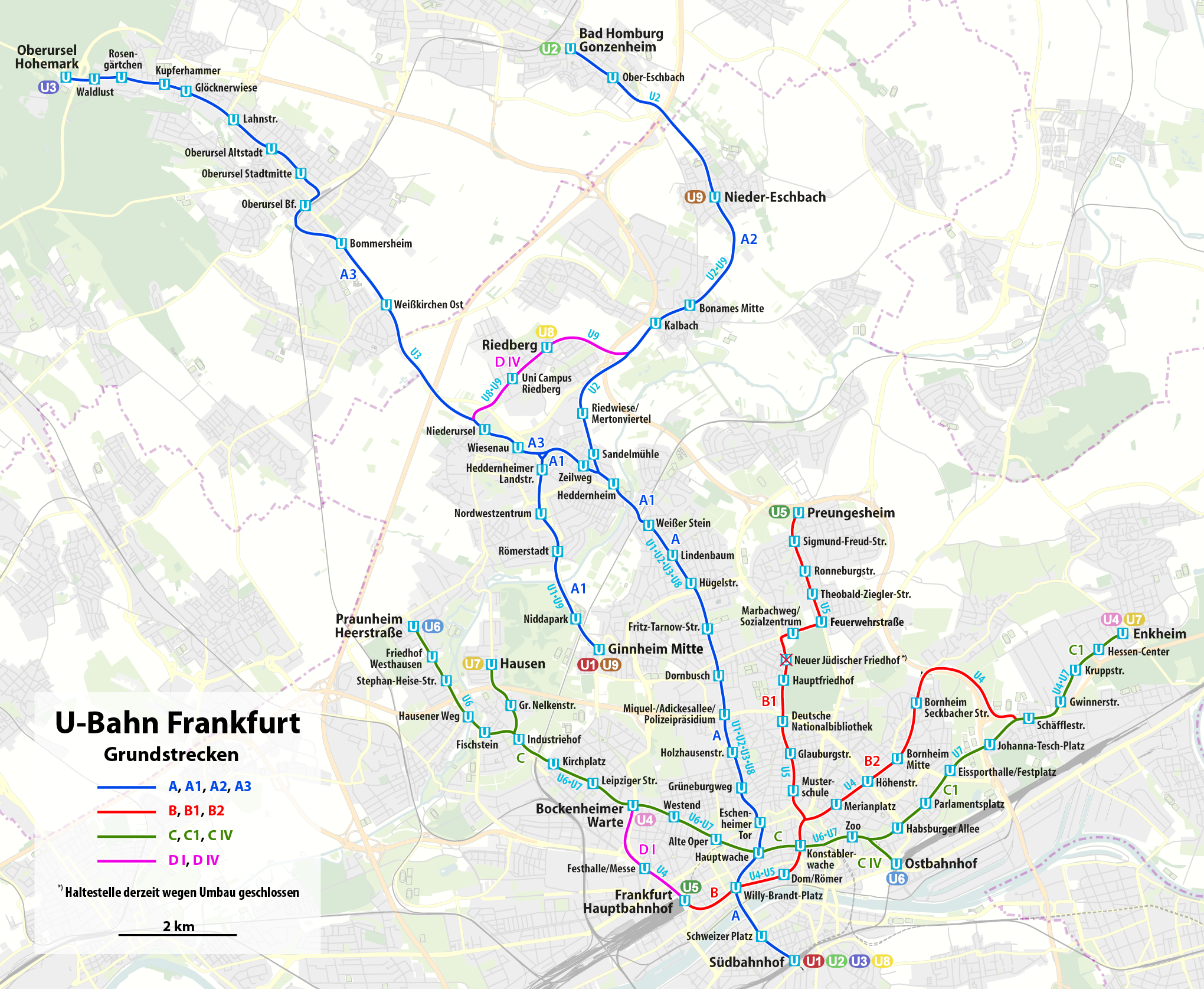 Frankfurt Subway basic routes.